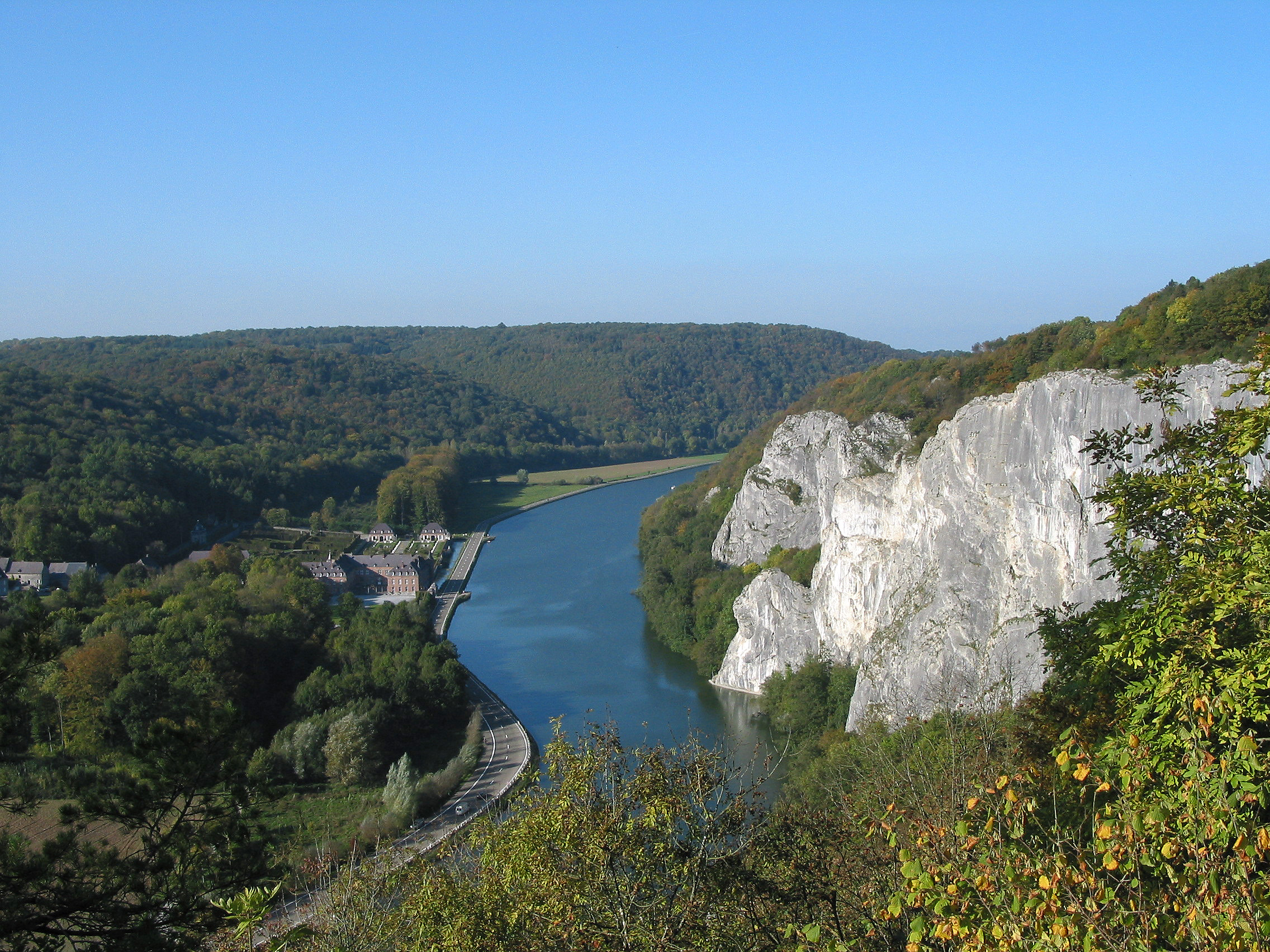 The Meuse river between Dinant and Hastière (Belgium). Right Bank: the Freÿr rocks (Anseremme). Left Bank: the castle of Freÿr (Waulsort).